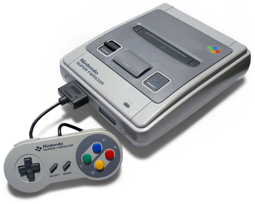 Nintendo Super Famicom (SHVC-001) with controller (SHVC-005).